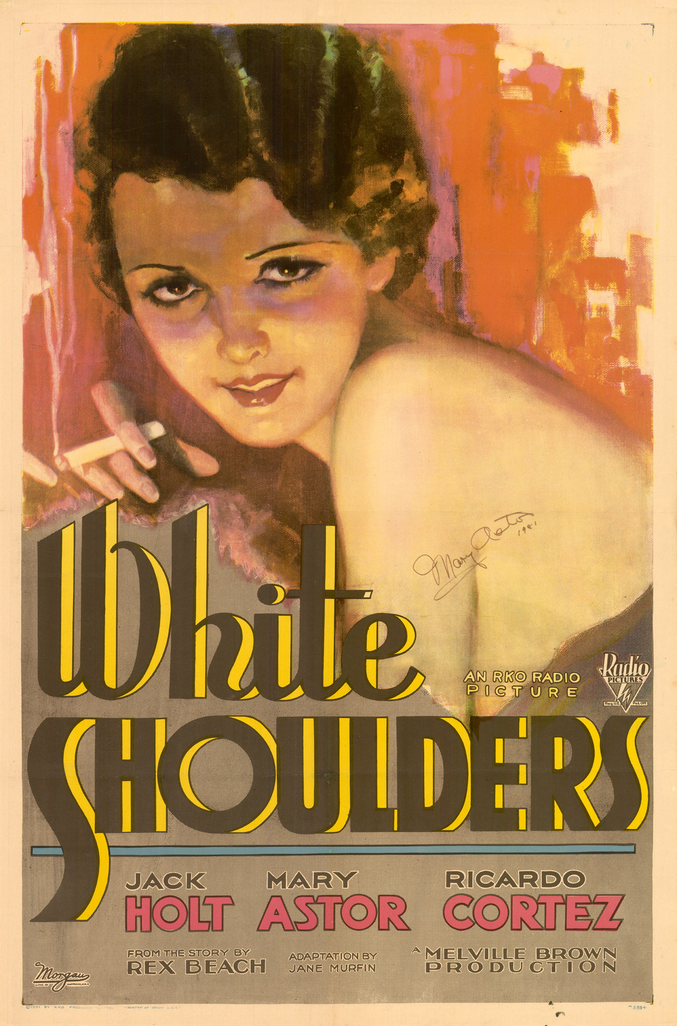 Movie poster for Mary Astor in White Shoulders (1931).